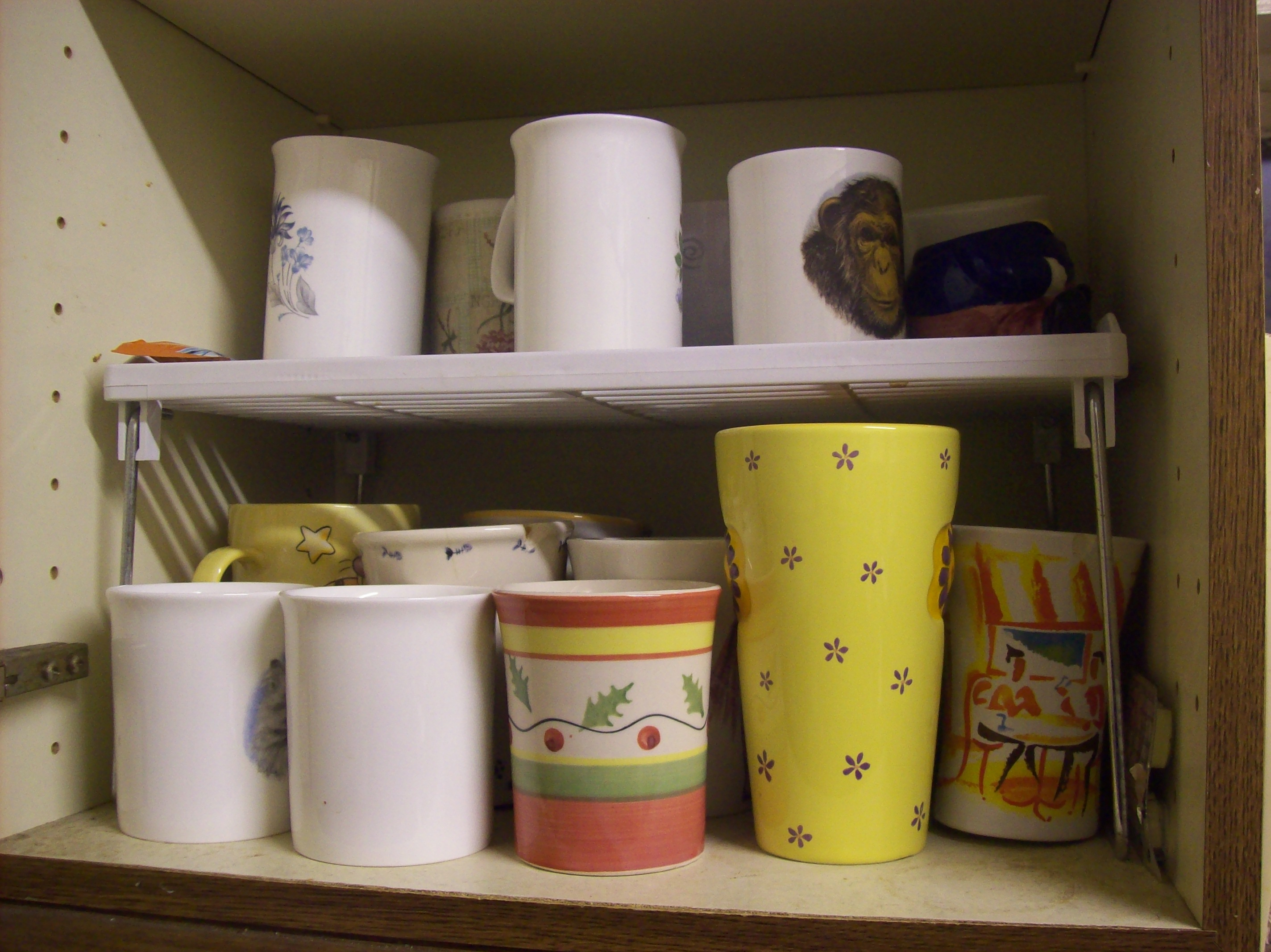 Mugs come in a variety of different designs.